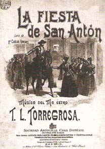 T. L. Torregrosa: La fiesta de San Antón